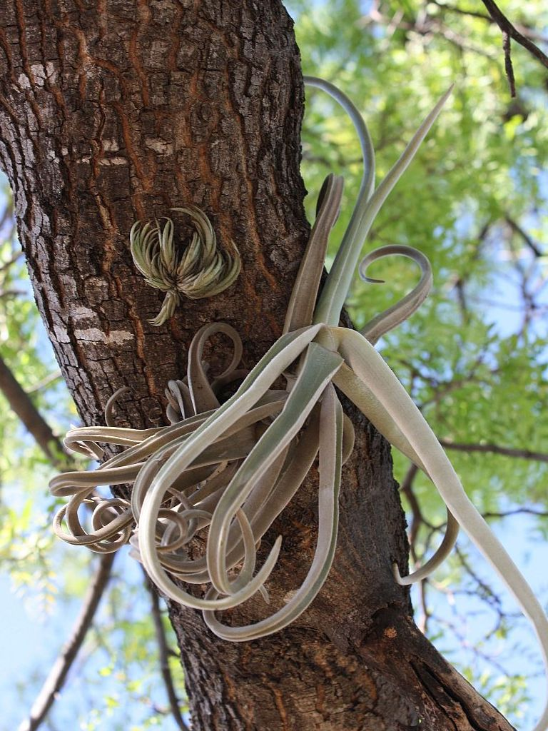 Tillandsia duratii, in habitat in Peru, exact location unknown.